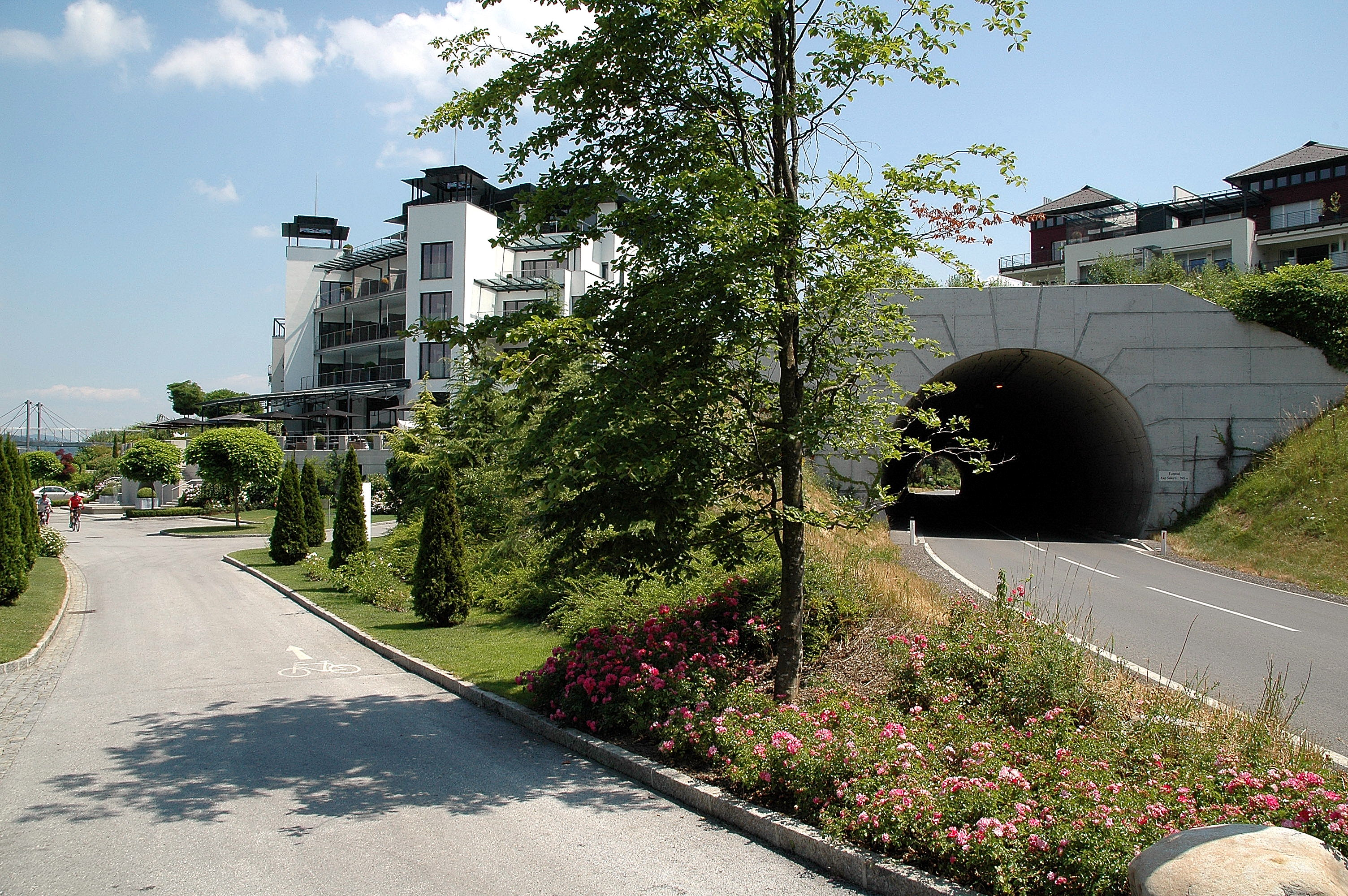 Cape Sekirn, south-side of Woerther-Lake, Carinthia, Austria